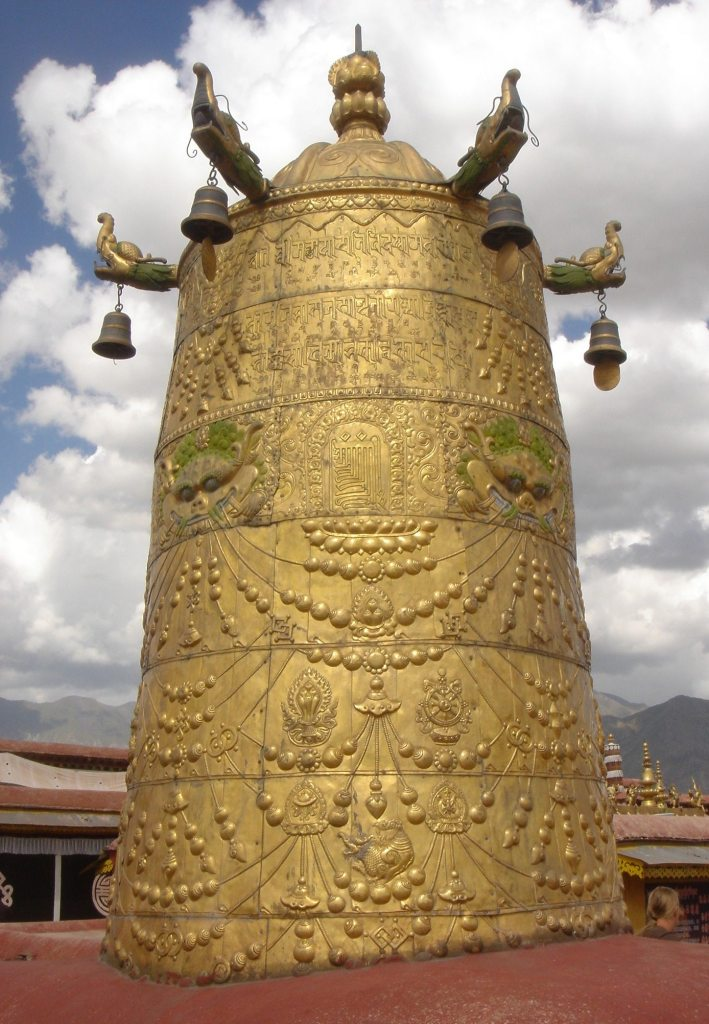 Photographer: Philipp Roelli (2005) released under the GFDL by creator